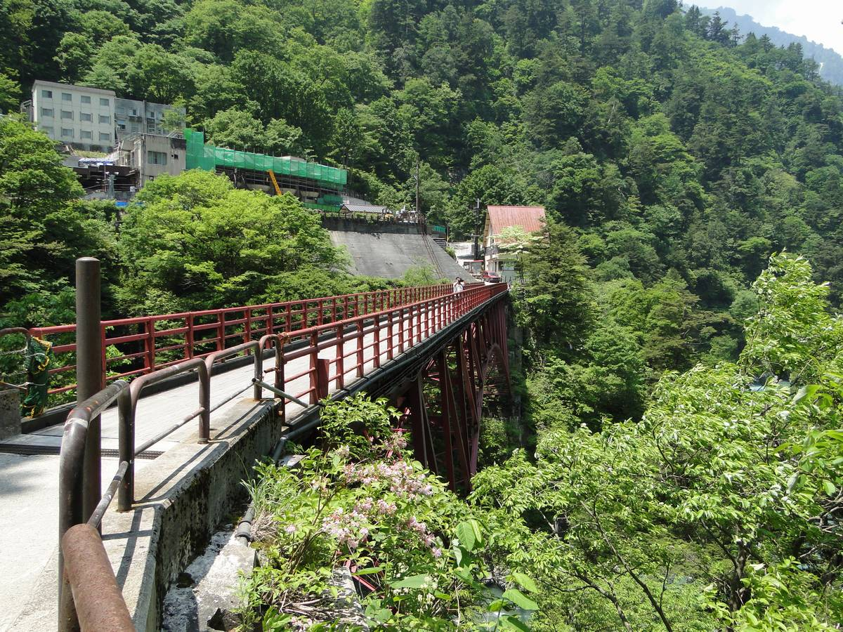 The Okukane Bridge in Keyakidaira, Kurobe City